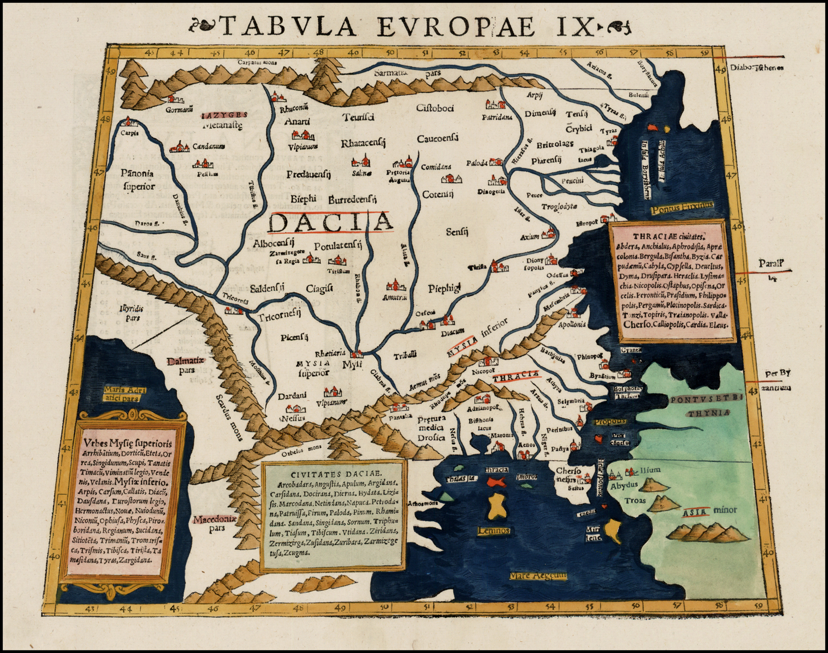 The Ninth European Map, depicting the eastern Balkans, from one of the editions of Sebastian Münster's Cosmographia, an expansion of Ptolemy's Geography. The map is unchanged from the 1540 plates.